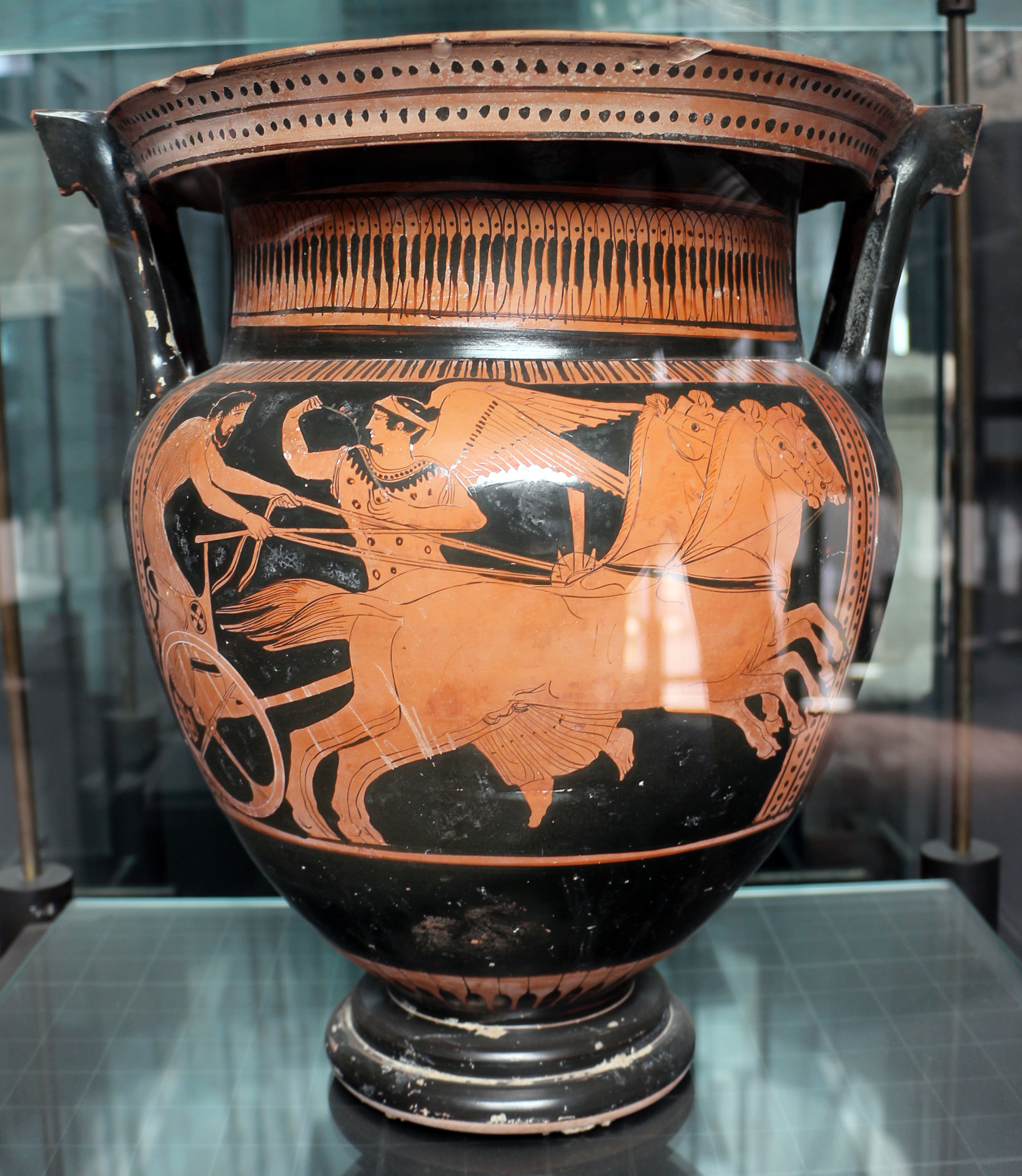 Ancient Greek pottery in the Museo provinciale Sigismondo Castromediano